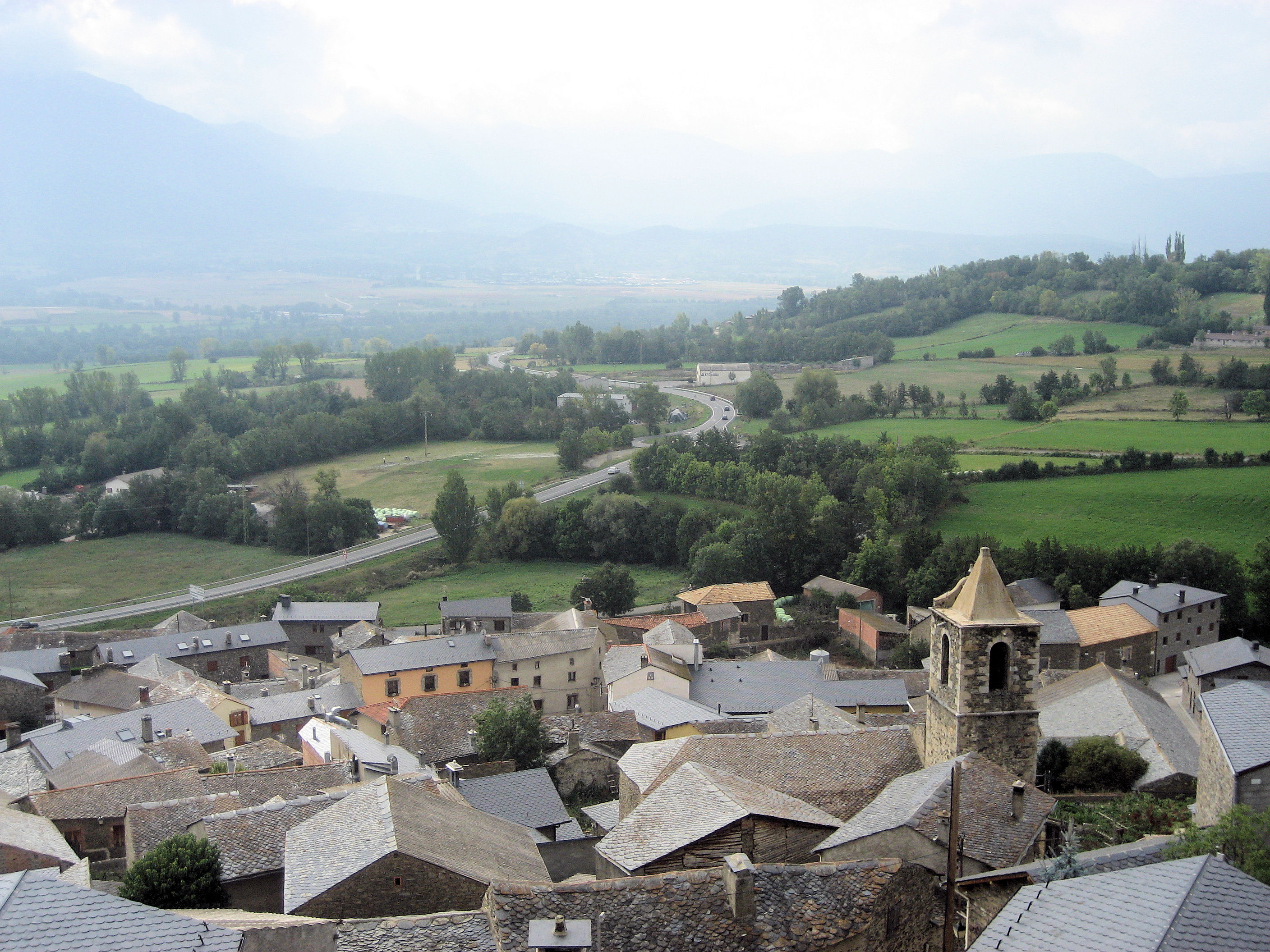 View of the town of Ger and the valley of Cerdanya, Catalonia.